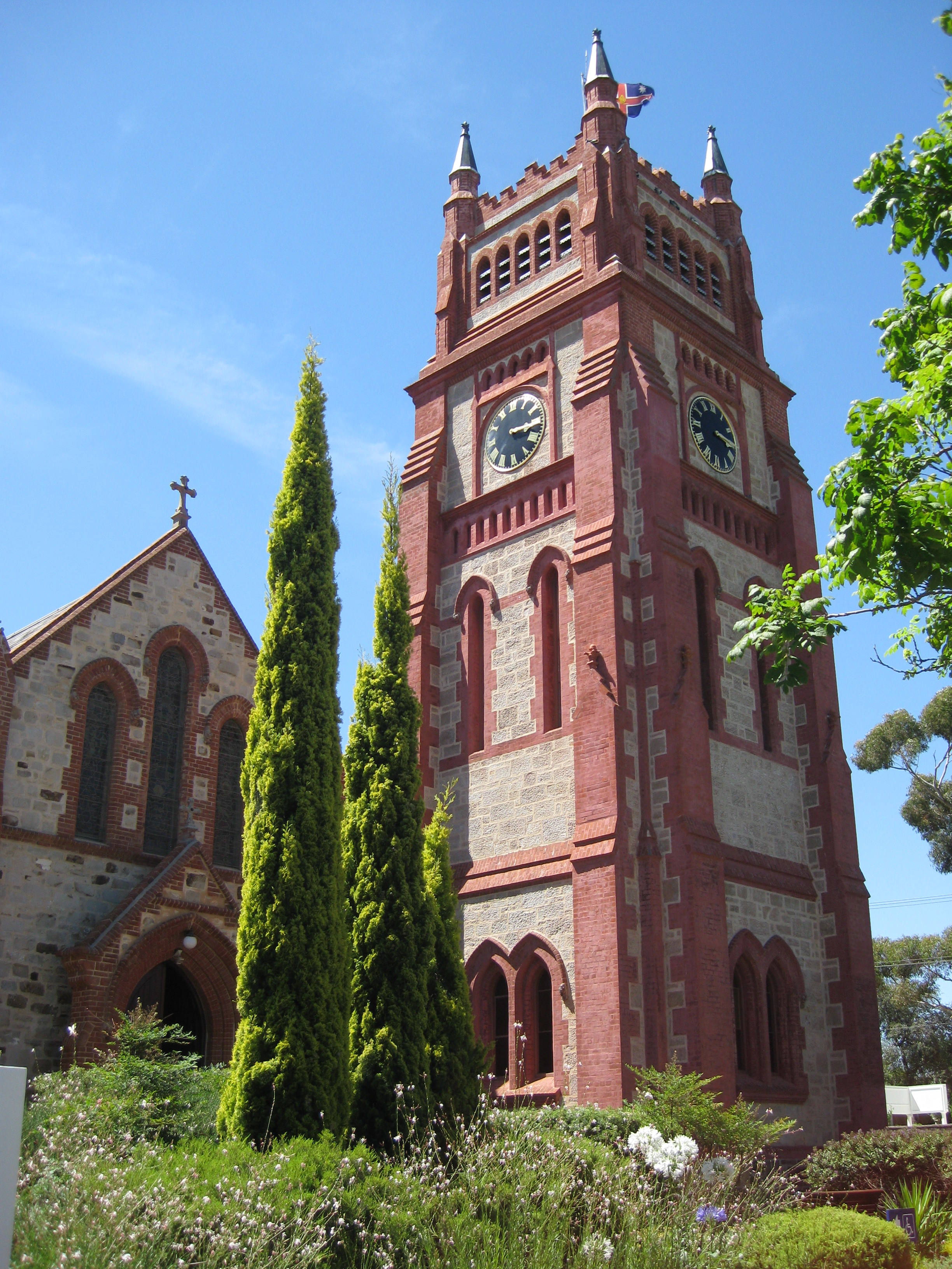 St Andrew's Church (Anglican), located on Church Tce, Walkerville.